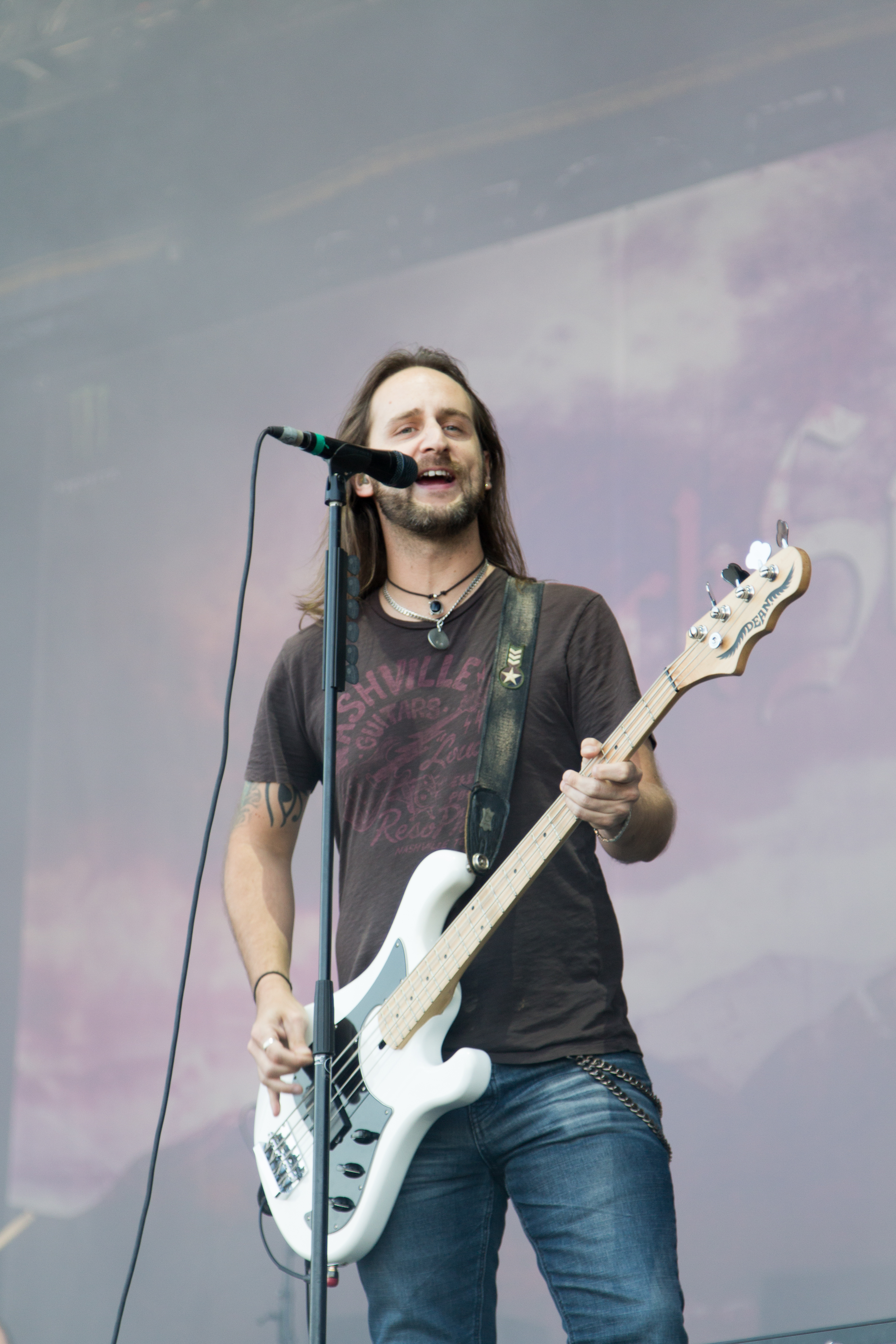 John Lawhon from Black Stone Cherry at Nova Rock 2014